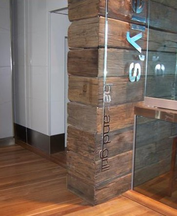 this picture is my own work